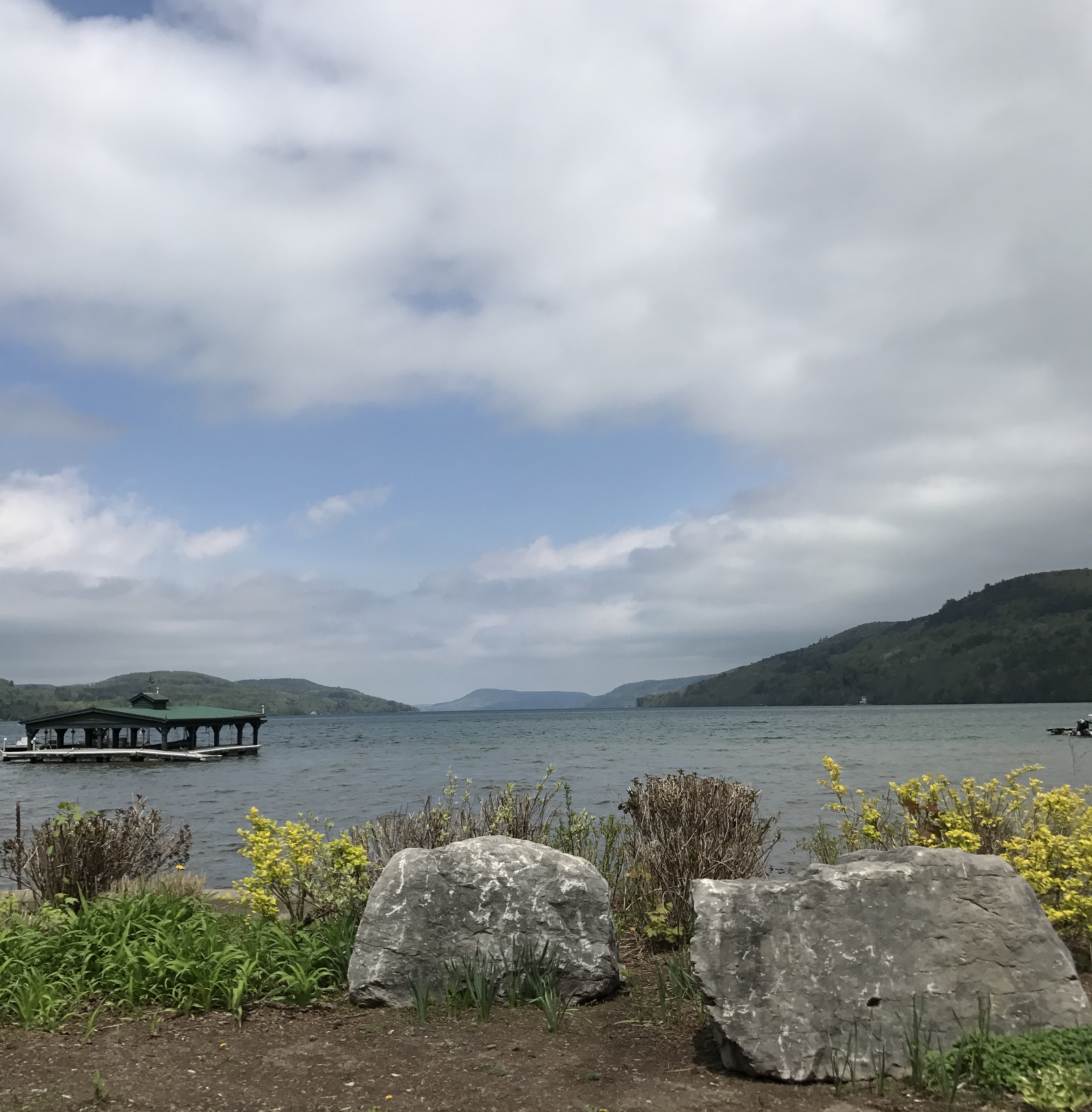 View of Otsego lake and Mount Wellington (New York) from lakefront park. Taken May 2017.